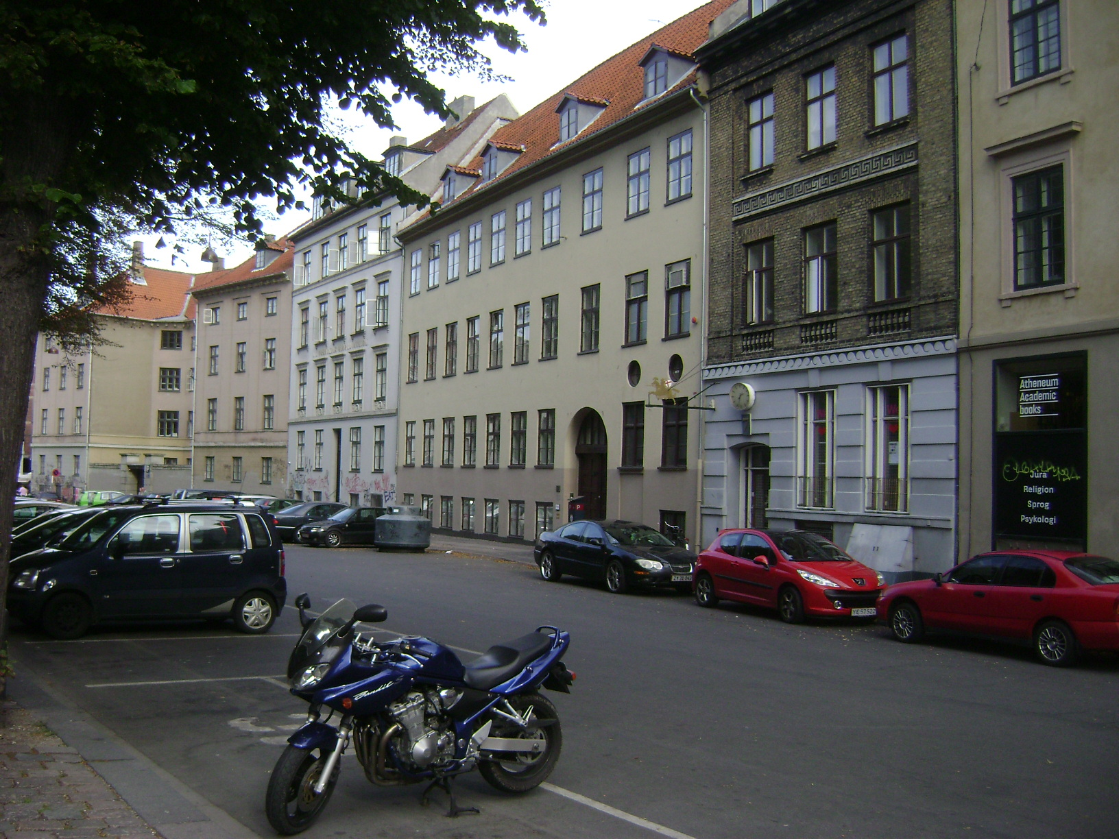 Denmark. Capital Region. Copenhagen